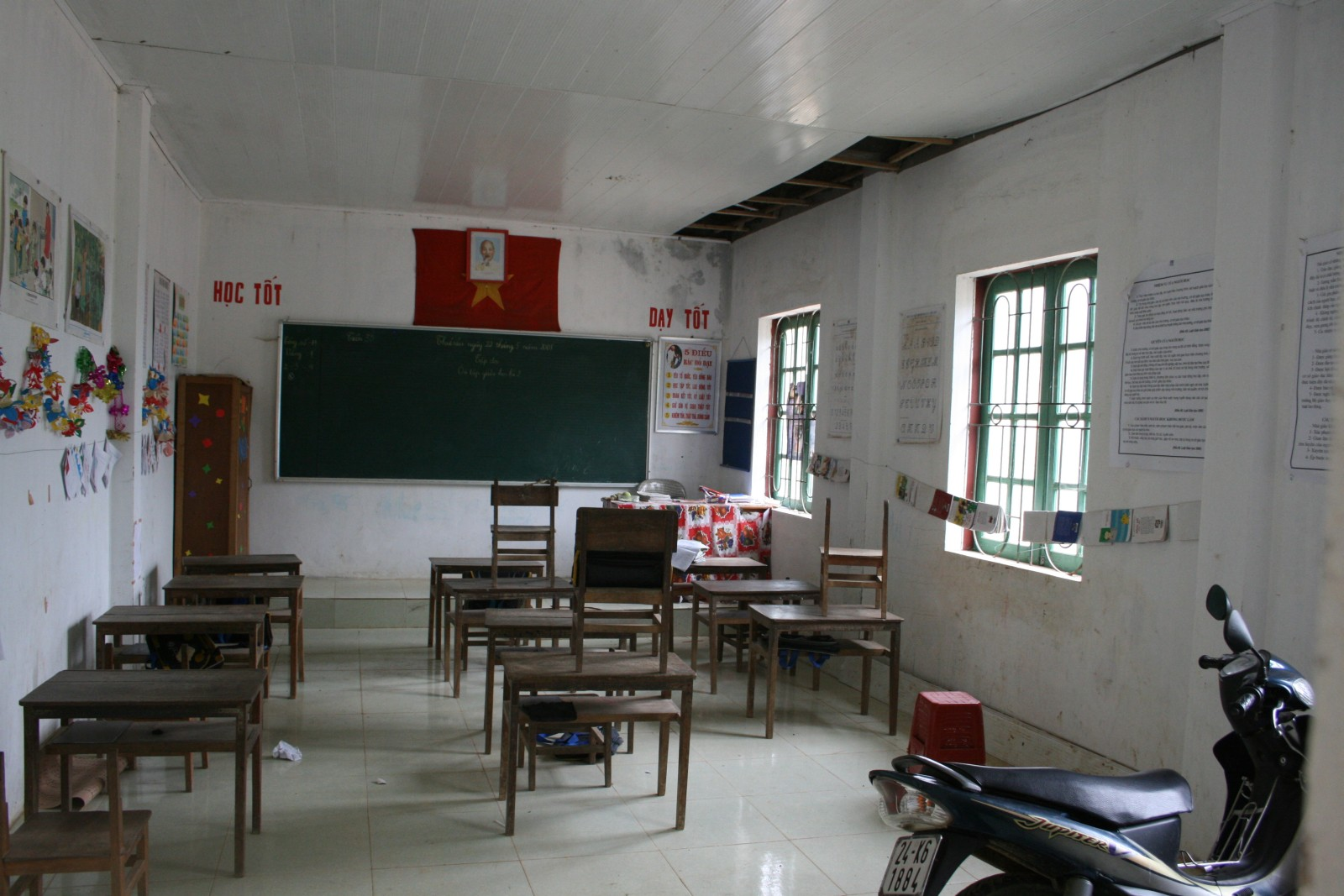 Vietnamese village school